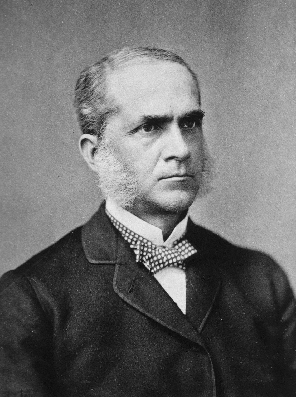 Stephen Smith (February 19, 1823 – August 27, 1922)